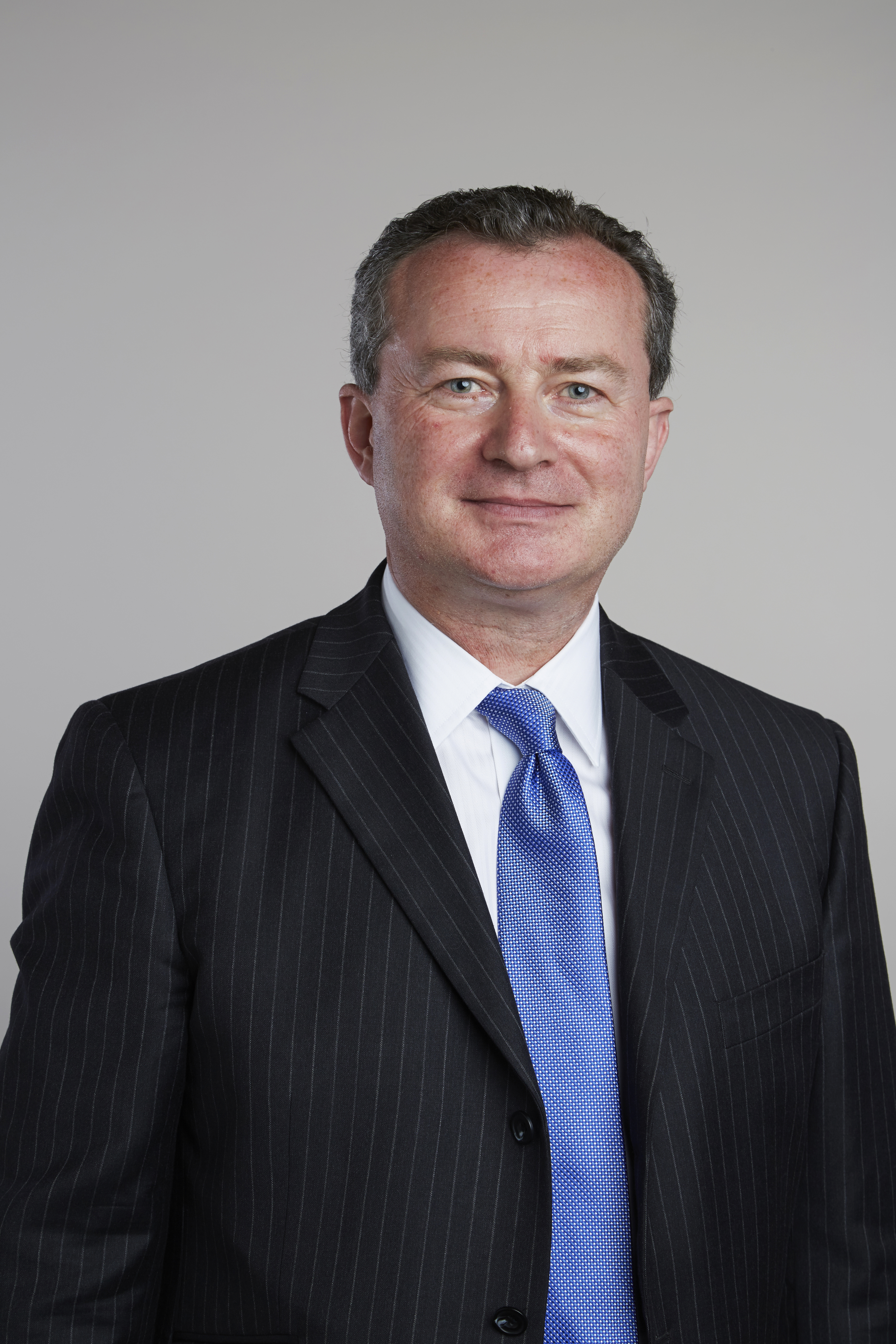 Laurence Daniel Hurst FMedSci FRS is a Professor of Evolutionary Genetics in the Department of Biology and Biochemistry at the University of Bath. Attribution: The Royal Society